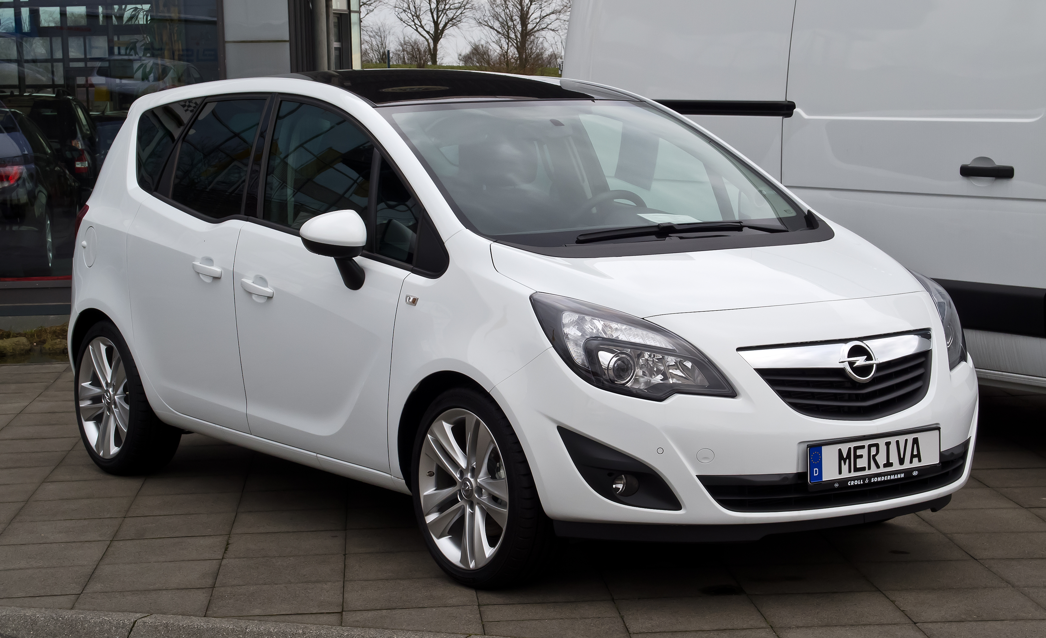 Opel Meriva 1.4 Design Edition (B)